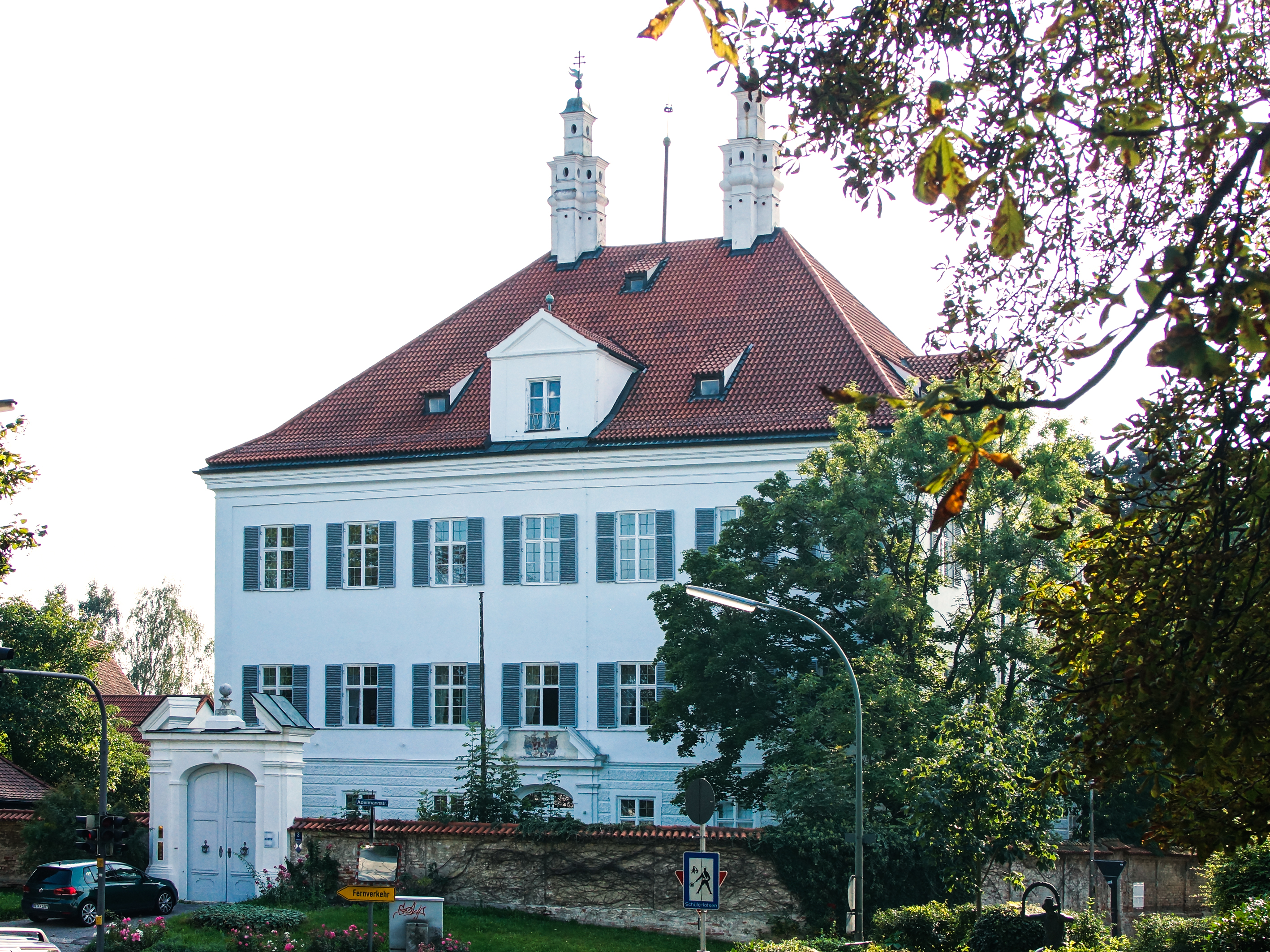 This is a photograph of an architectural monument.